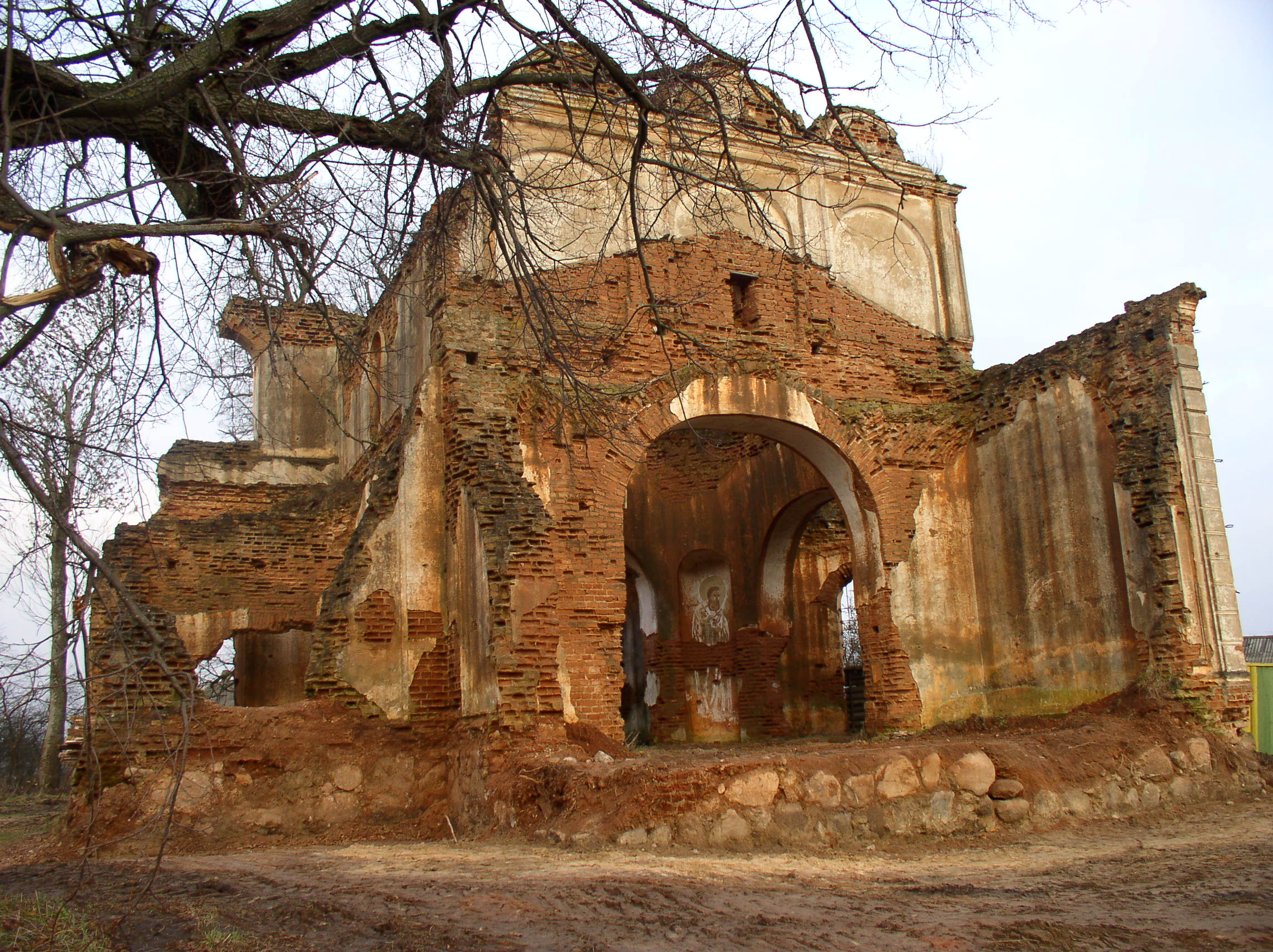 Church of Saint Nicholas. Stankava, Belarus.